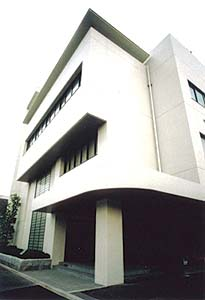 Headquarter building of Toell Co.,Ltd. a LP gas/drinking water distribution company in Yokohama, Japan